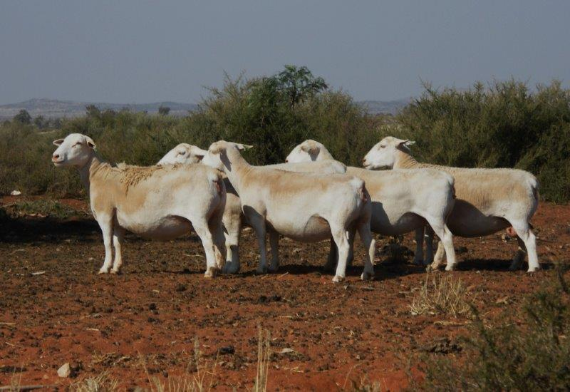 White Dorper ewes